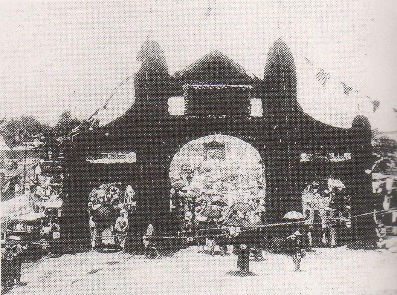 Opening ceremony of Beppu station, Japanese Governmental Railway, Beppu city Oita prefecture Japan.